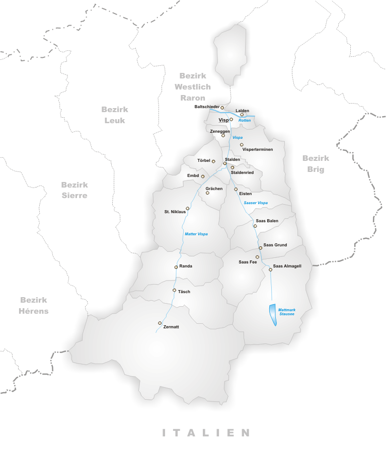 Municipalities of District Visp